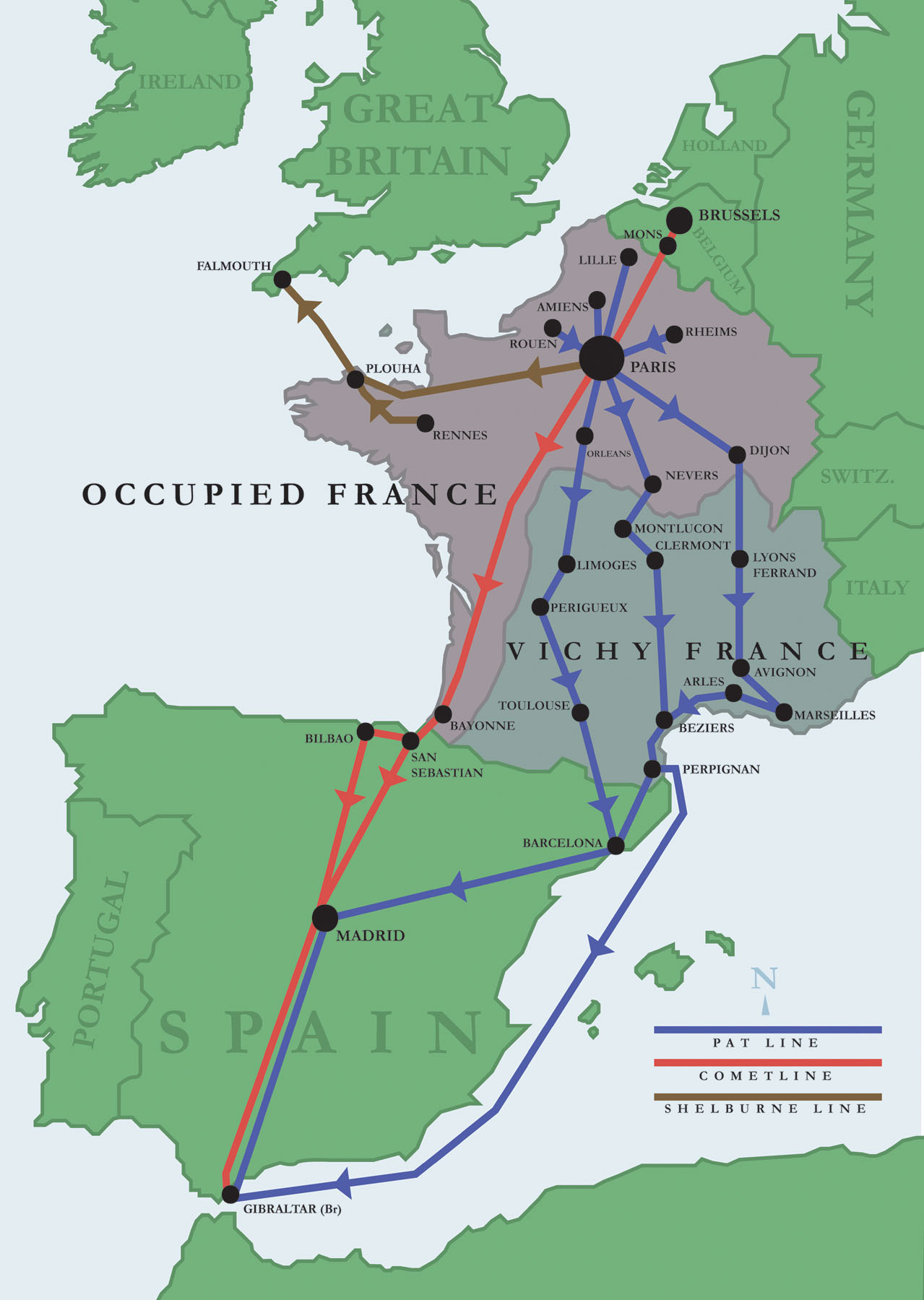 A map of the routes used by the Comet Line, the Pat Line, and the Shelbourne escape lines to smuggle downed allied airmen out of Nazi-occupied Europe during World War II.